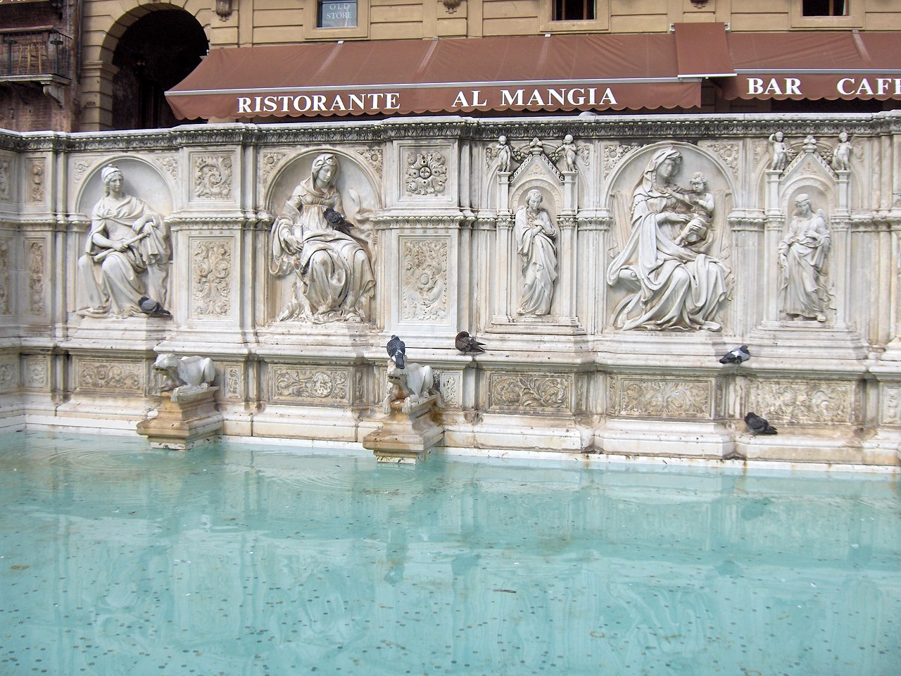 Fontane Gaia (Fountain of Joy) on the Piazza del Campo, Siena, Italy Own photo - photo made by Georges Jansoone on 11 October 2005